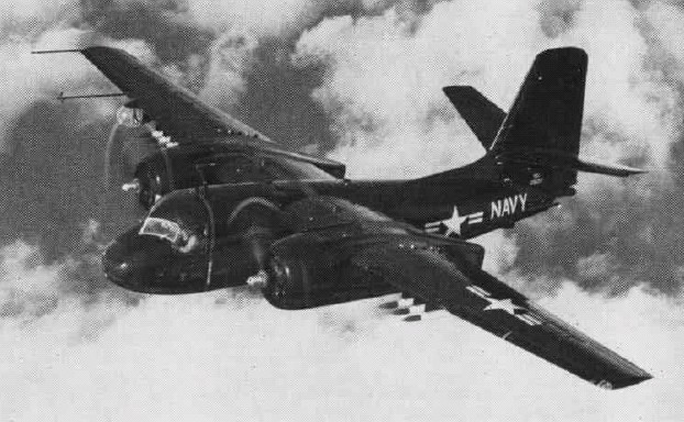 A Grumman S2F-1 Tracker armed with HVAR rockets, in 1954.